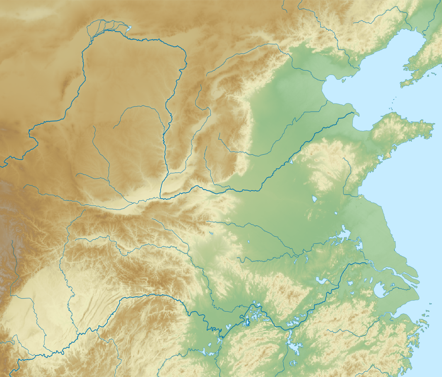 A relief map of the North China Plain and surrounding areas. Equirectangular projection, N/S stretching 122%. Geographic limits of the map: N: 42.0° N S: 28.0° N W: 103.0° E E: 123.0° E Section of Natural Earth Cross Blended Hypso with Shaded Relief, Water, and Drainages from (public domain)